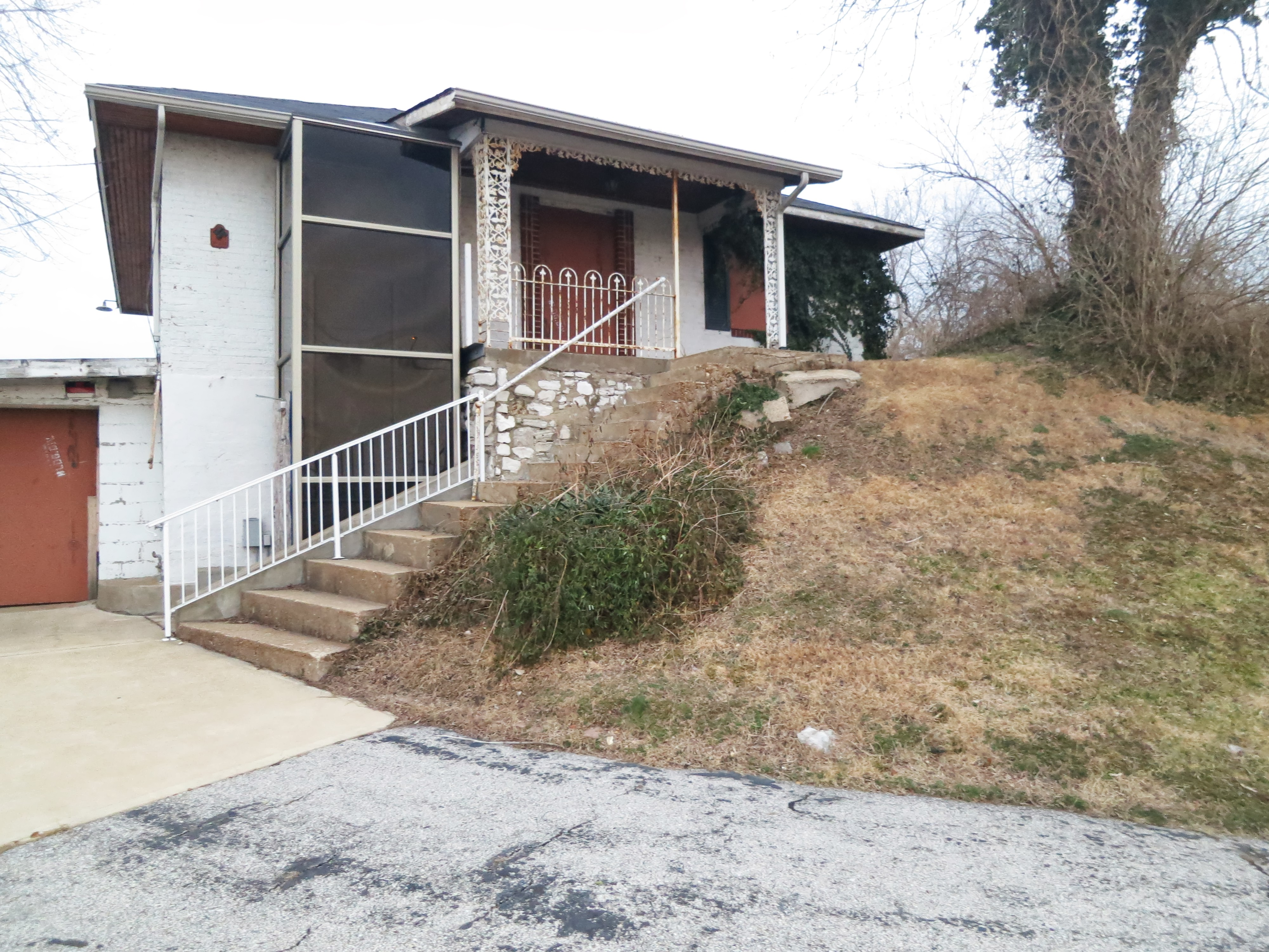 Sugarloaf Mound platform mound with house constructed above it.